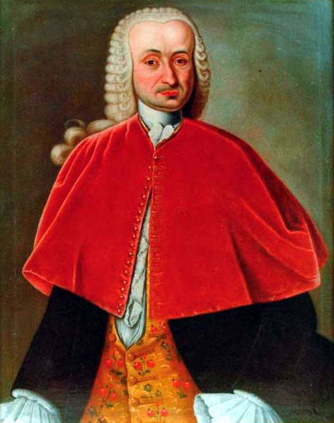 Paul Wilhelm Schmid (1704-1763) german legal scholar